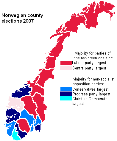 Map of the counties of Norway, showing the elections results for the county elections of 2007.